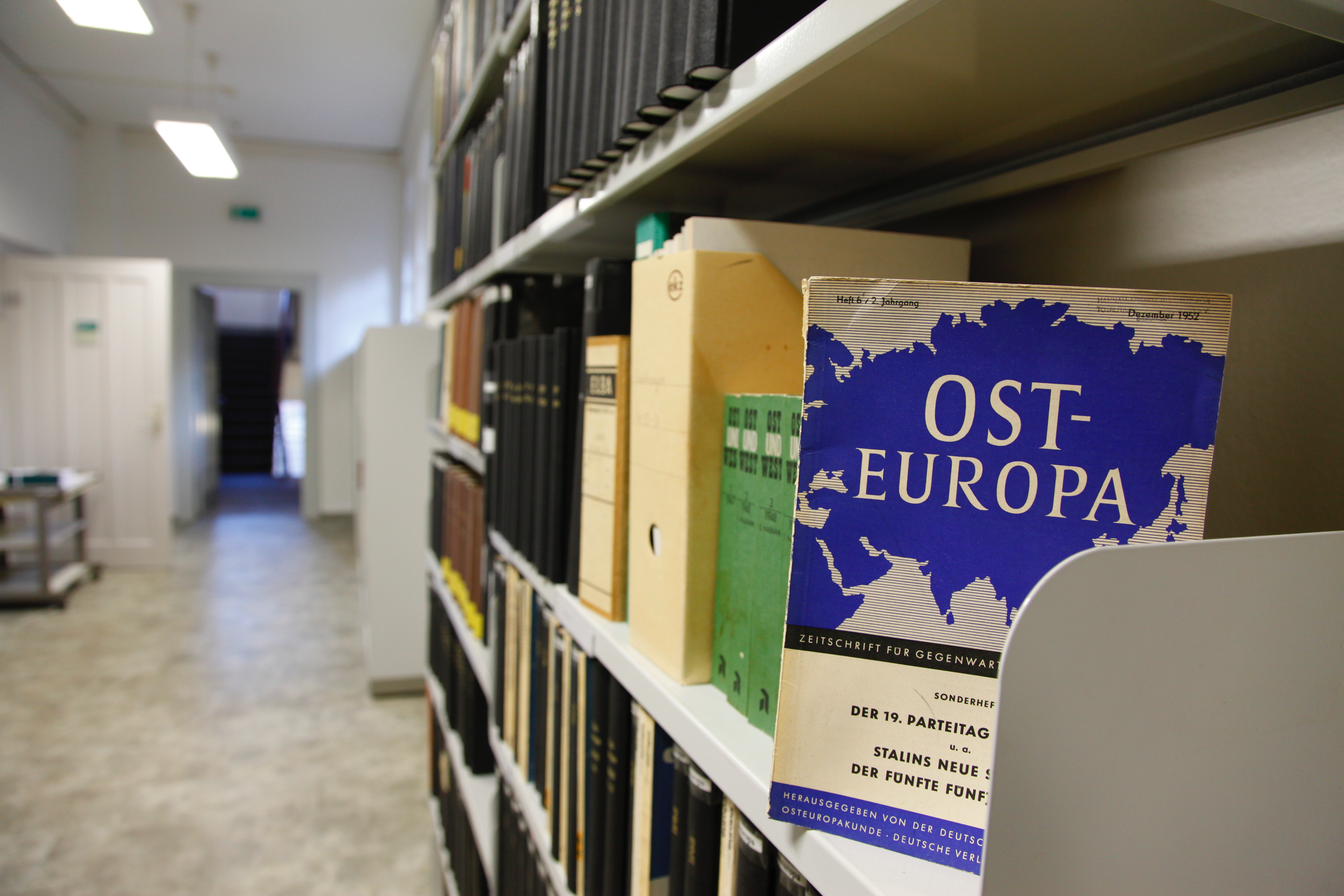 Hannah-Arendt-Institut für Totalitarismusforschung Dresden